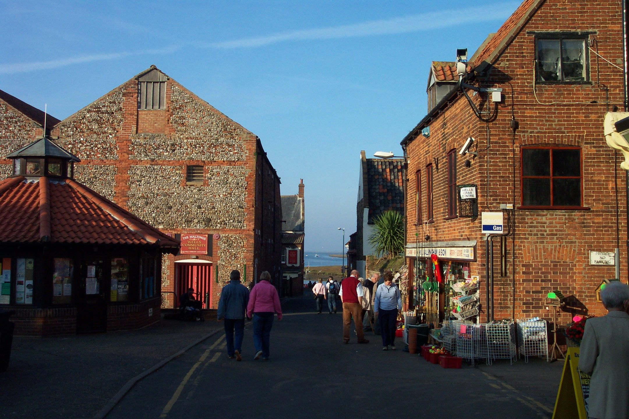 Behind the quay at Wells-next-the-sea, with view to the harbour mouth. For more information see the Wikipedia article Wells-next-the-Sea.